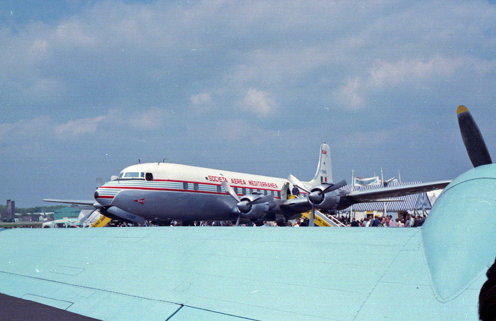 A shot from the late 1960s at Biggin Hill Air fair showing a Douglas DC-6B belonging to the Societa Area Mediterranea a subsidiary of the Italian state airline Alitalia. The DC-6B was used primarily on holiday charter flights.